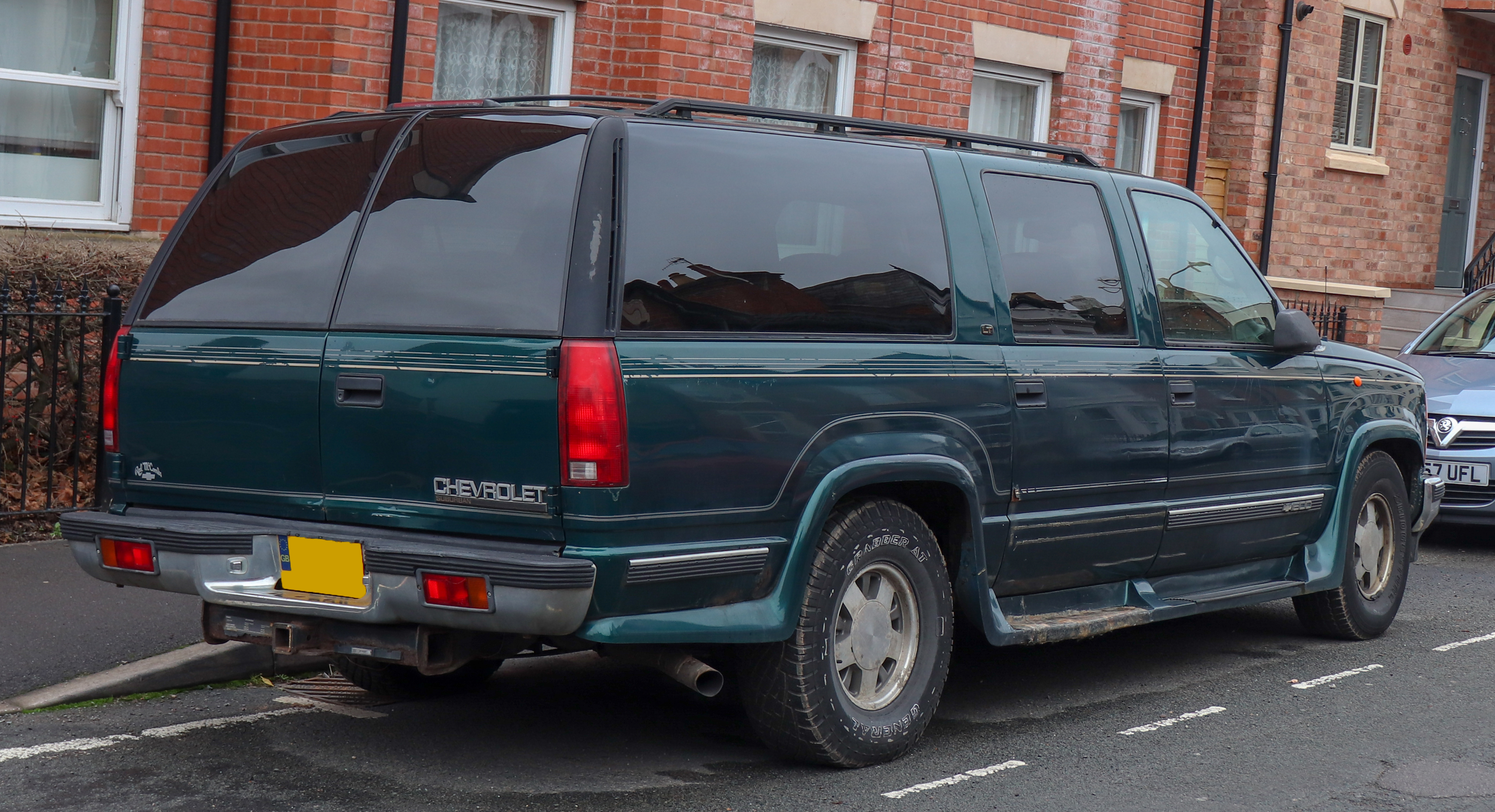 1997 Chevrolet Suburban 5.7 Rear Taken in Leamington Spa